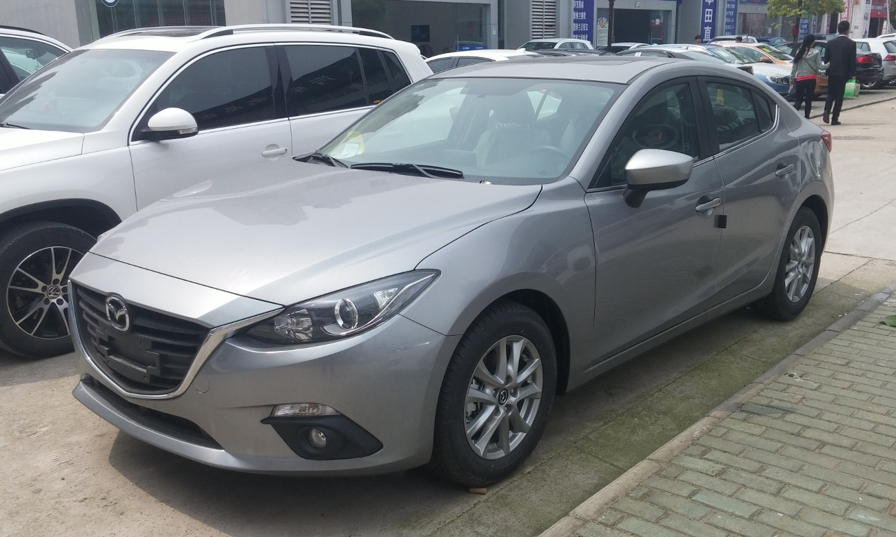 Mazda 3 Axela sedan photographed in Wuhan, Hubei province, China.